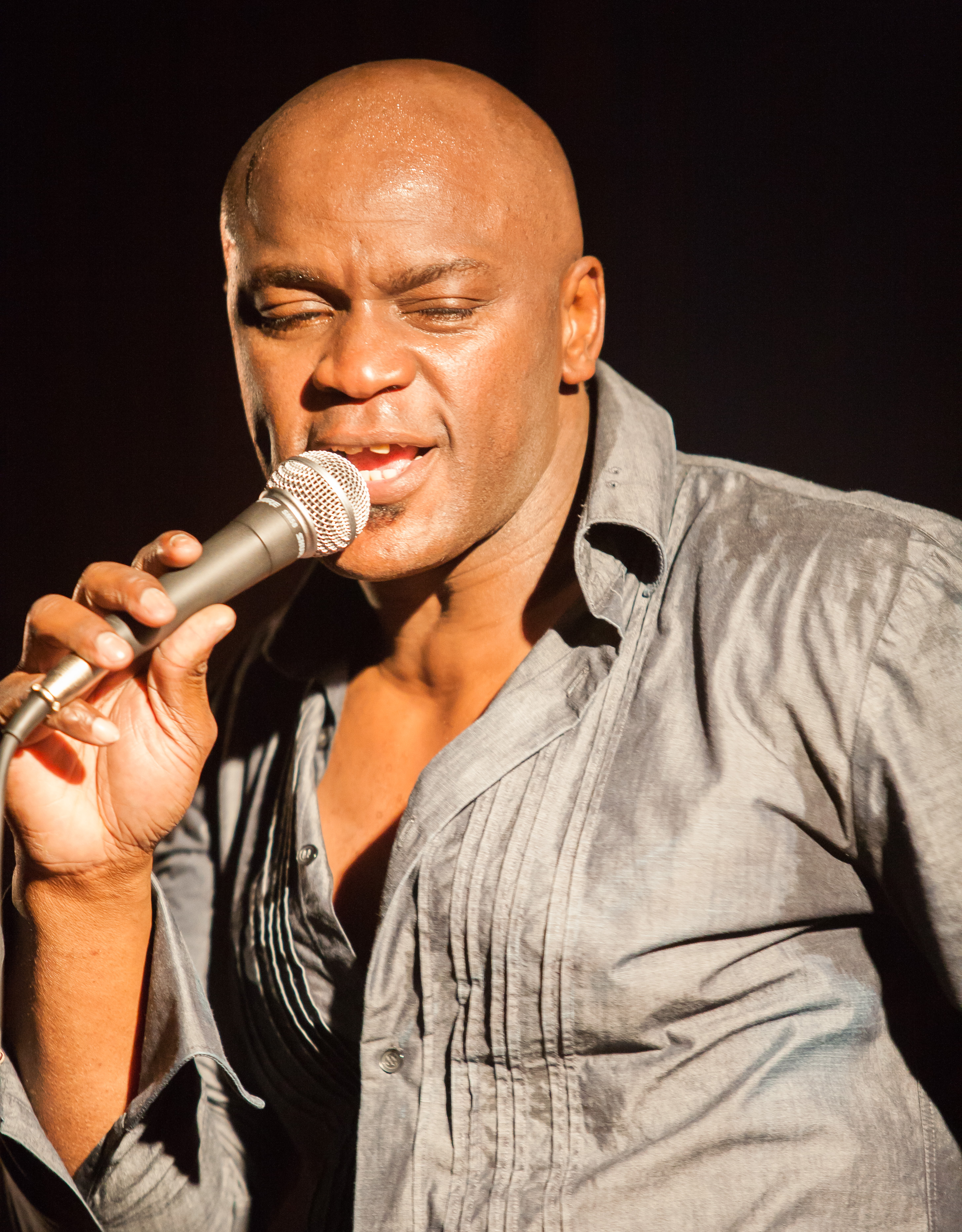 Ola Onabule